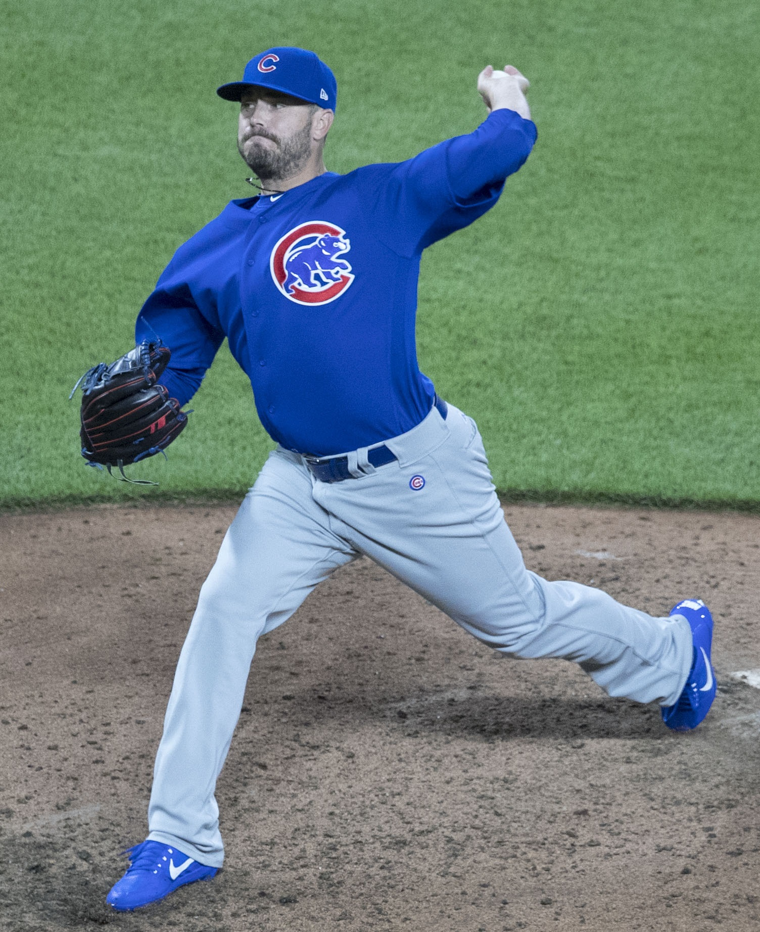 Cubs at Orioles 7/14/17